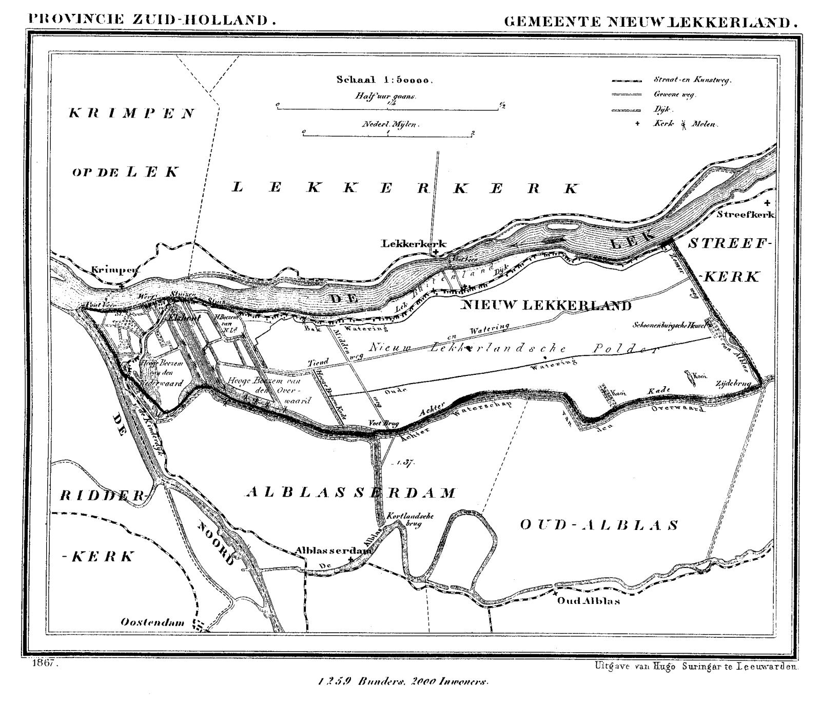 Historic map of Nieuw-Lekkerland, South Holland, the Netherlands